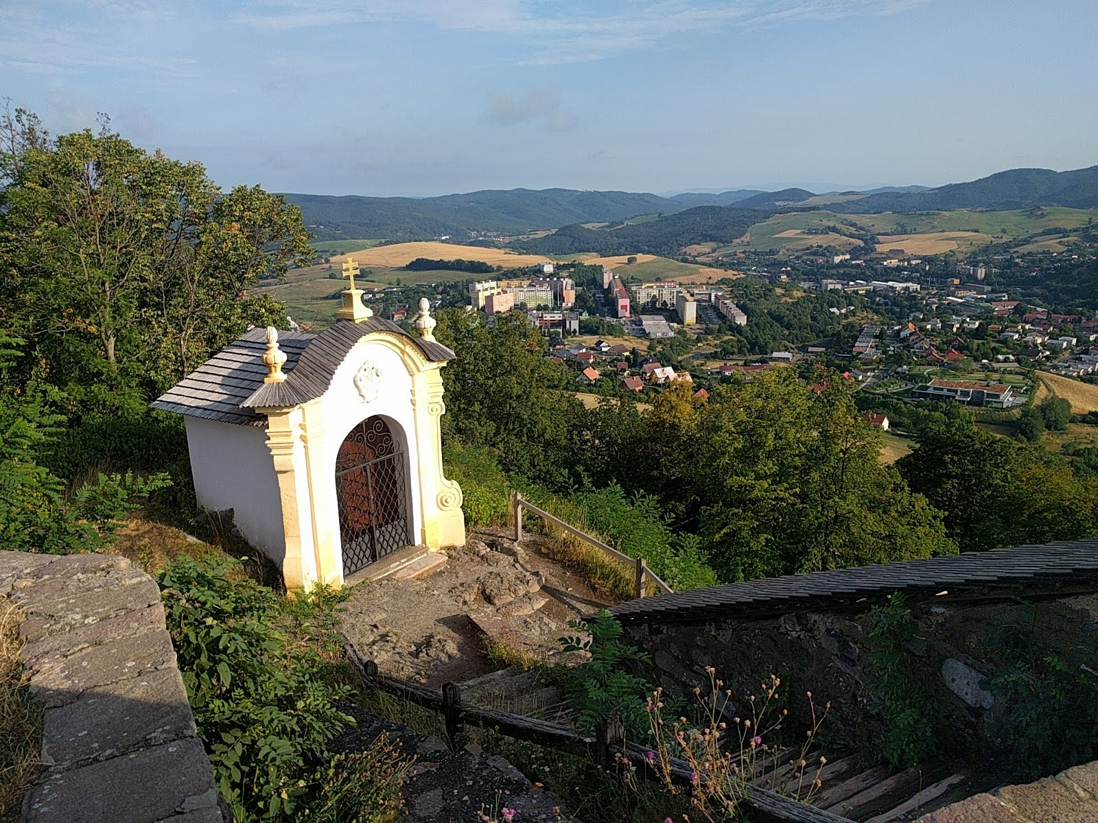 In the foreground, the Chapel of The circumcision of Our Lord, that is station 18 of the Pilgrims' Way just below the summit of Calvary.